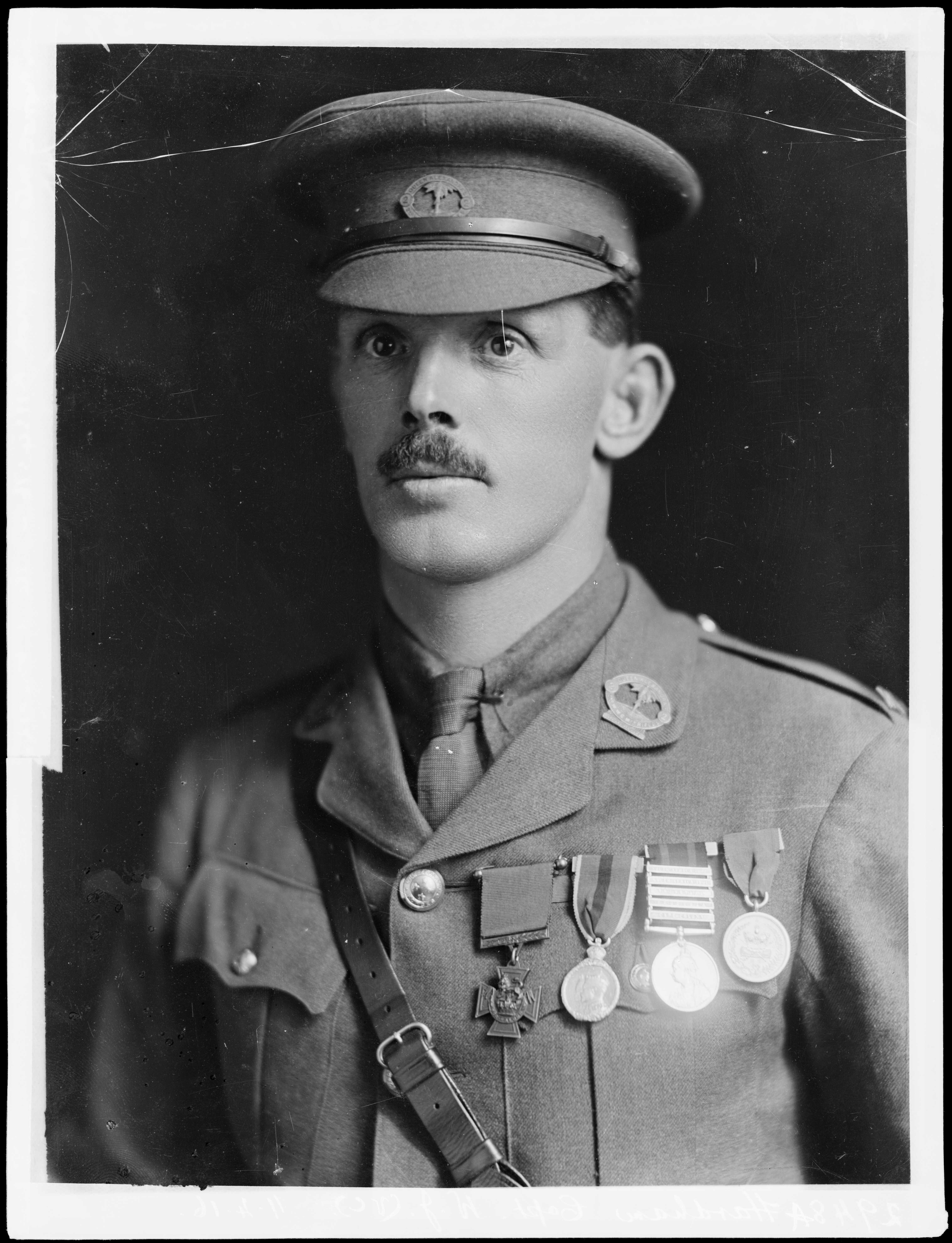 Head and shoulders portrait of Captain William James Hardham in military uniform. He wears the Victoria Cross, and other medals. Photograph taken circa 11 April 1916 by S P Andrew Ltd. At least one publication, 14 April 1928 in Evening Post